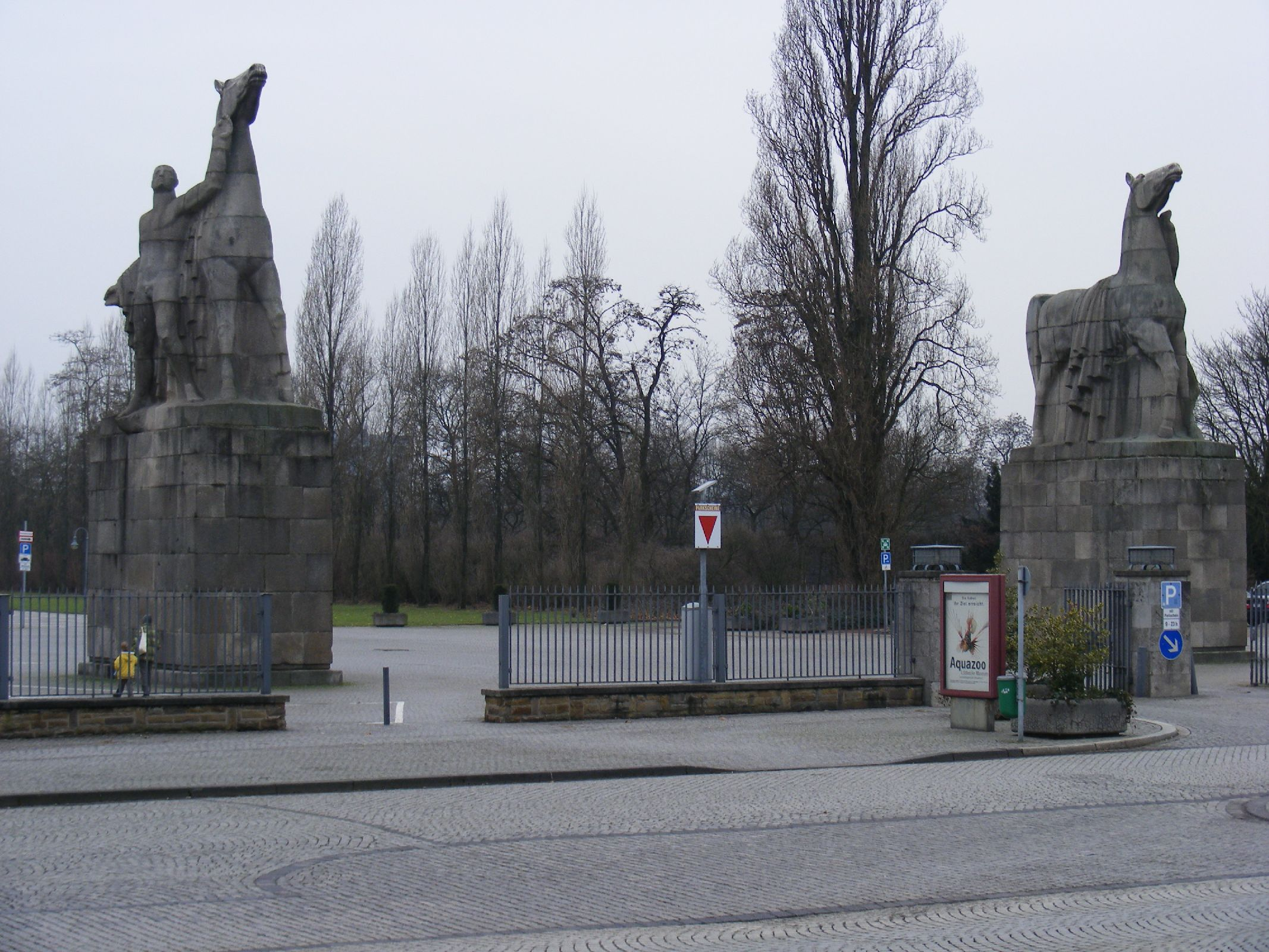 Home of the 1937 Düsseldorf Exhibition "Schaffendes Volk" - Creative People. Entrance to the exhibition - beyond here in 1937 the avenue was lined with flags with swastikas. These two statues were still unfinished at the opening of the Exhibition on 8 May 1937, and were only finished in 1940. Sculptor - Edwin Scharff who is well known for the "Drei Männer im Boot" statue in Hamburg. Oddly - or perhas not - there is no mention of these monumental sculptures inthis website of Scharff which concentrates on his banning and incorporation into the degenerate art exhibition by the authorities of the time. Photos fo these horses were indeed incorporated into the 1937 Munich exhibition of degenerate art "Entartete Kunst" and he Scharff was banned although he was paid for the work. Despite the ban, he was alowed to complete the monumental granite figures in 1940. Contemporary photographs of the exhibition show the left hand horse and horseman almost finished, whilst the right hand one was left in rough blocks of granite; the spin on it was that it showed work in progress.